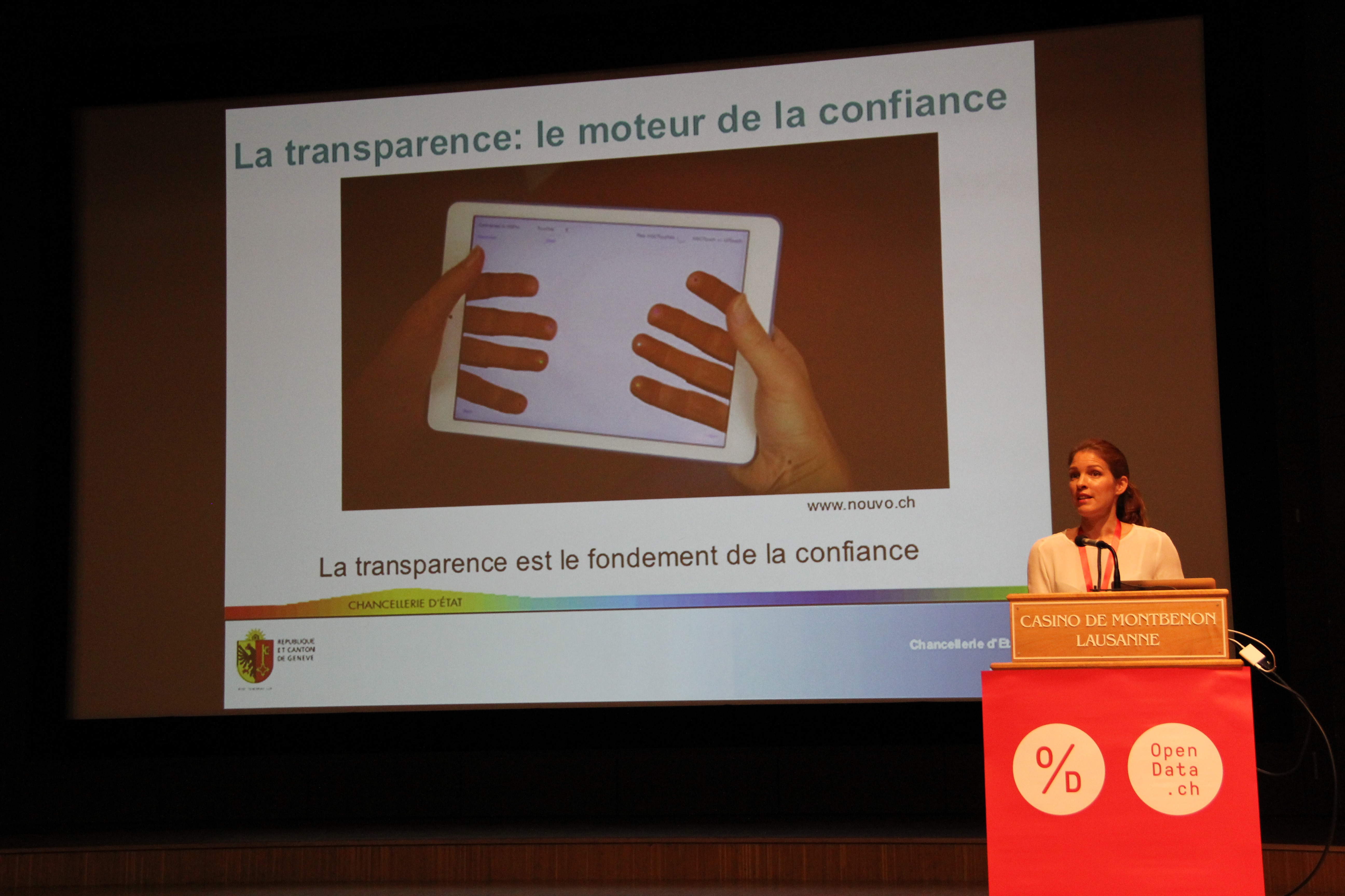 The Conference is hosted by the Swiss Chapter of Open Knowledge International. The Open Data conference 2016 was held in Lausanne at the Casino de Montbenon.